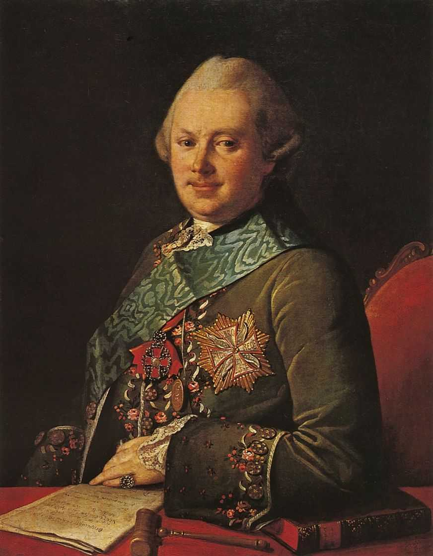 Portrait of Alexandr Viazemsky (1727-1793), Russian politician